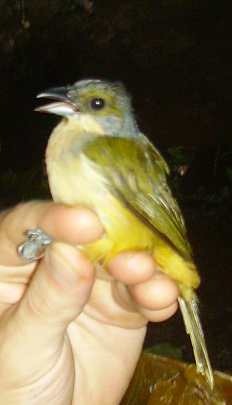 A female of Fulvous-crested Tanager (Tachyphonus surinamus) in the Napo province, Ecuador.